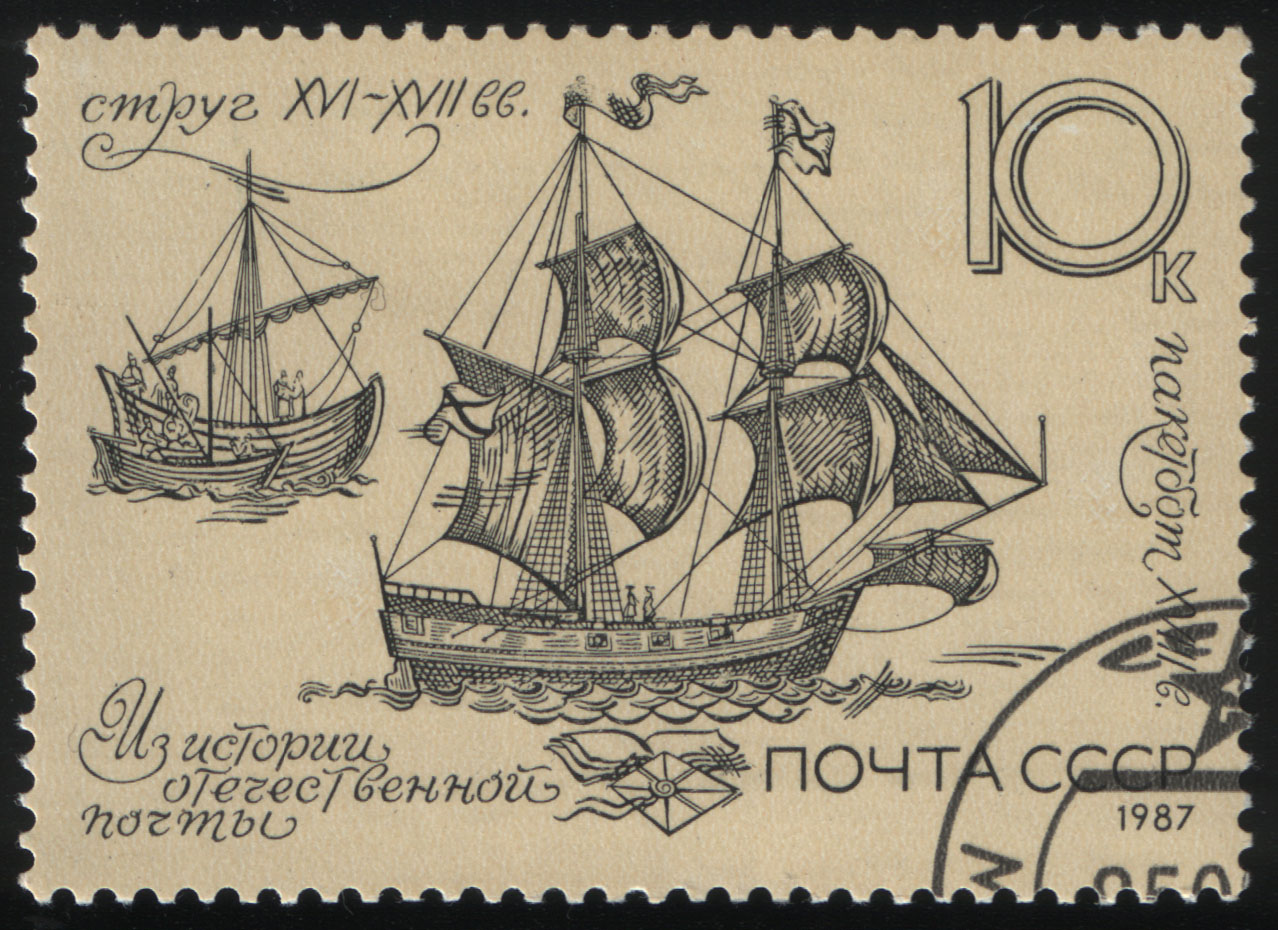 Stamp of USSR , History of domestic post. Boat (17-18 c.), packet ship (18 c.), 1987